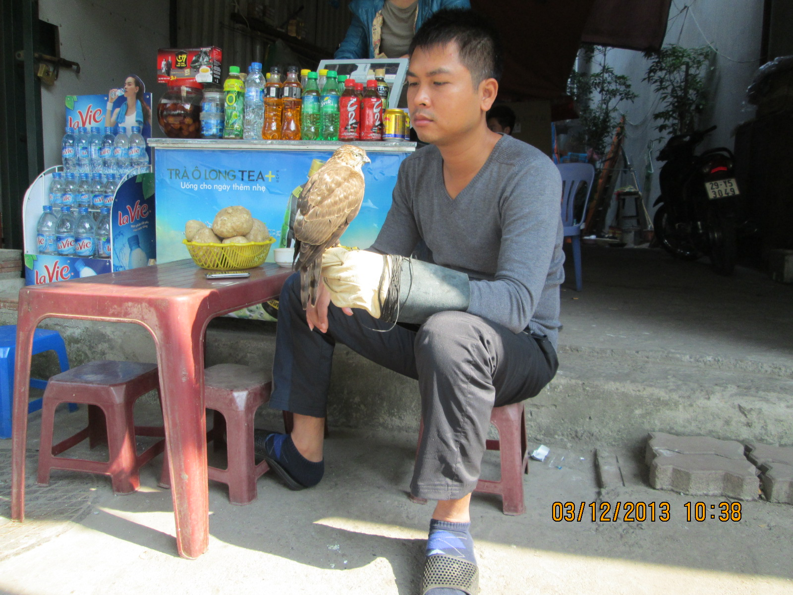 A rare sight in Hanoi. A young man with his pet falcon near West Lake city.